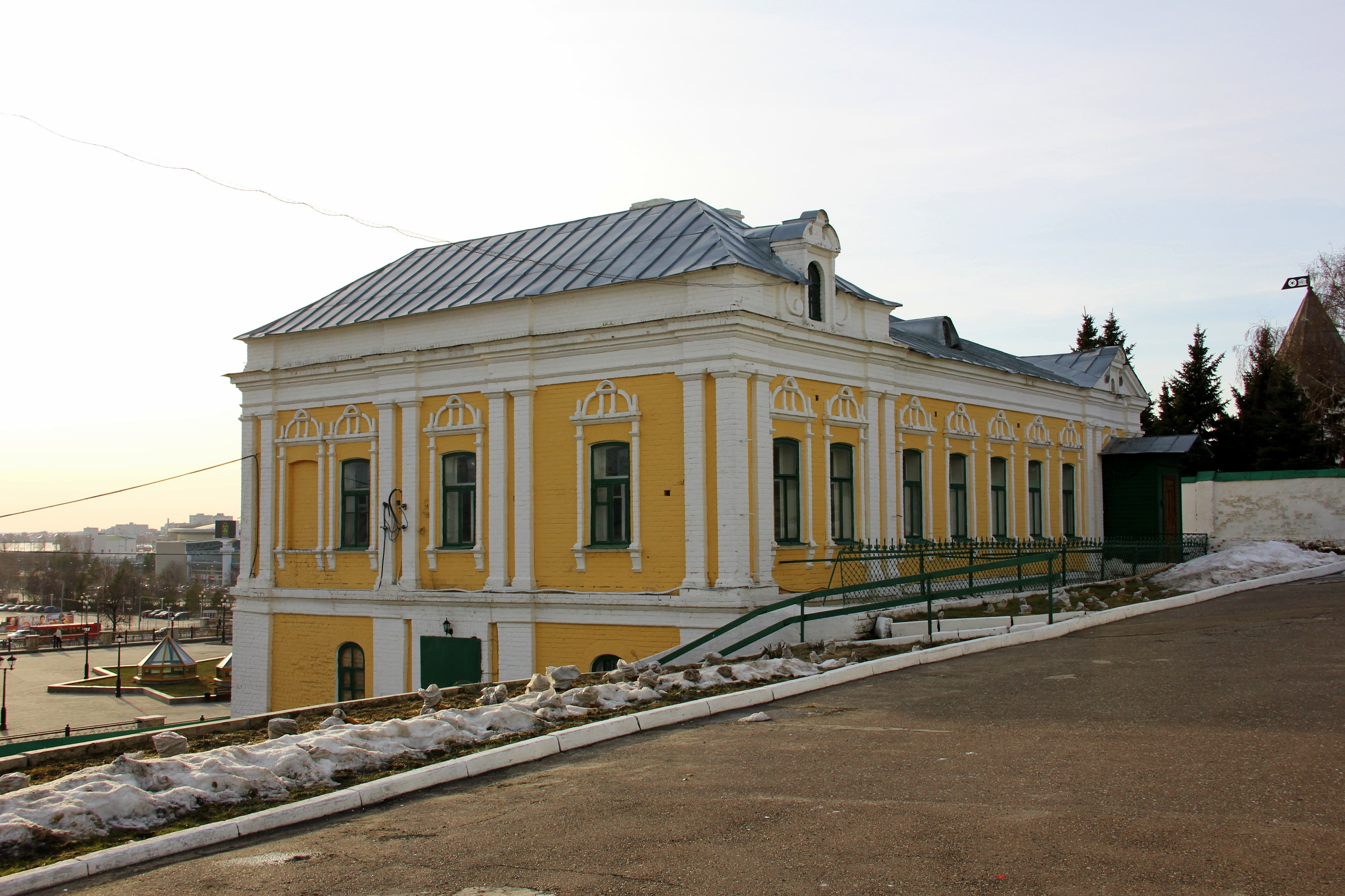 Arhimandrid house.